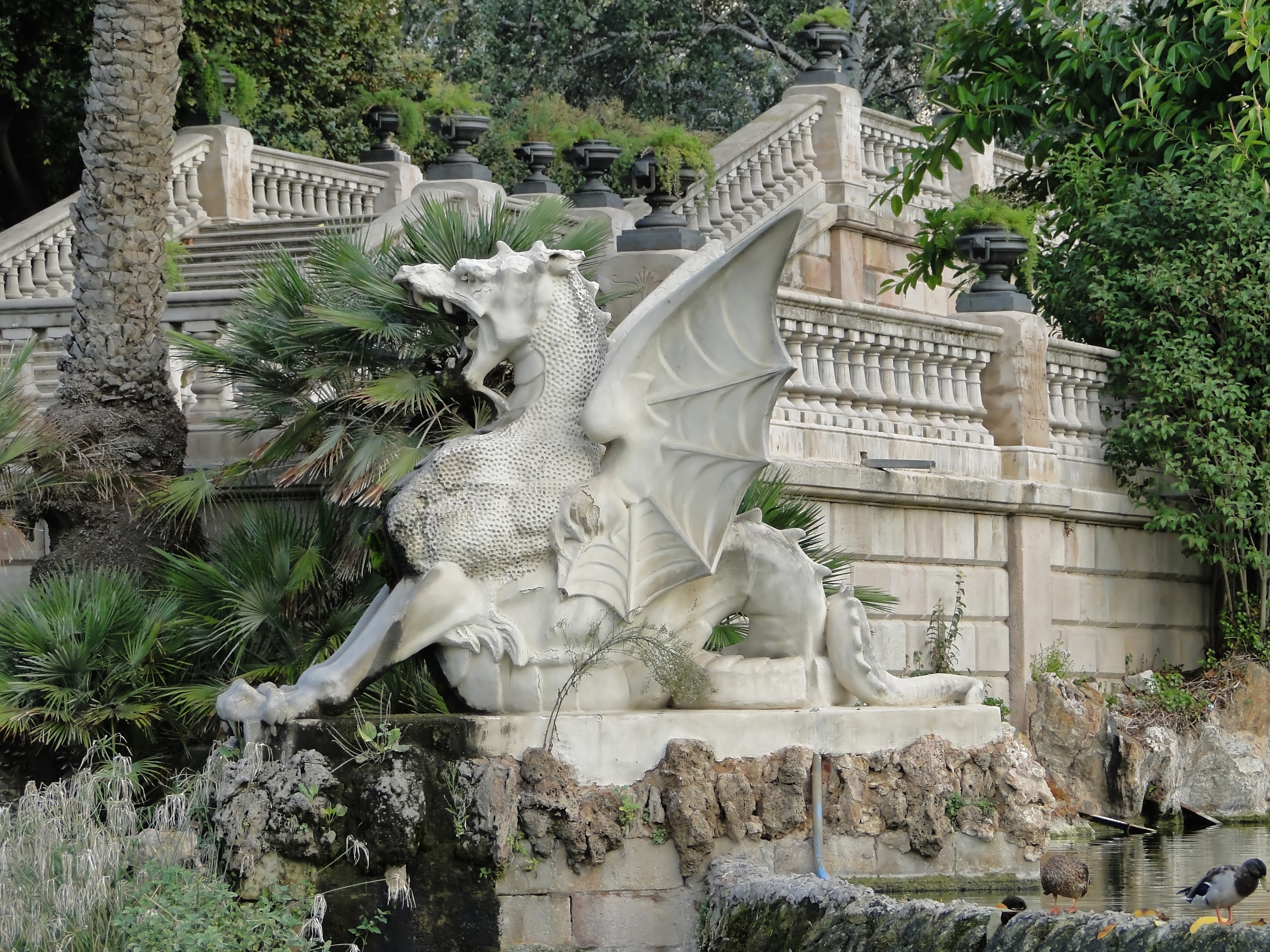 Statue of a dragon on the fountain in Ciutadella Park, Barcelona, Spain